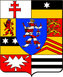 Hesse-Darmstadt coat of armes (1736)